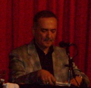 Turkish writer Murathan Mungan in reading his book "Kadından Kentler" in Diyarbakir, Turkey. (2008)